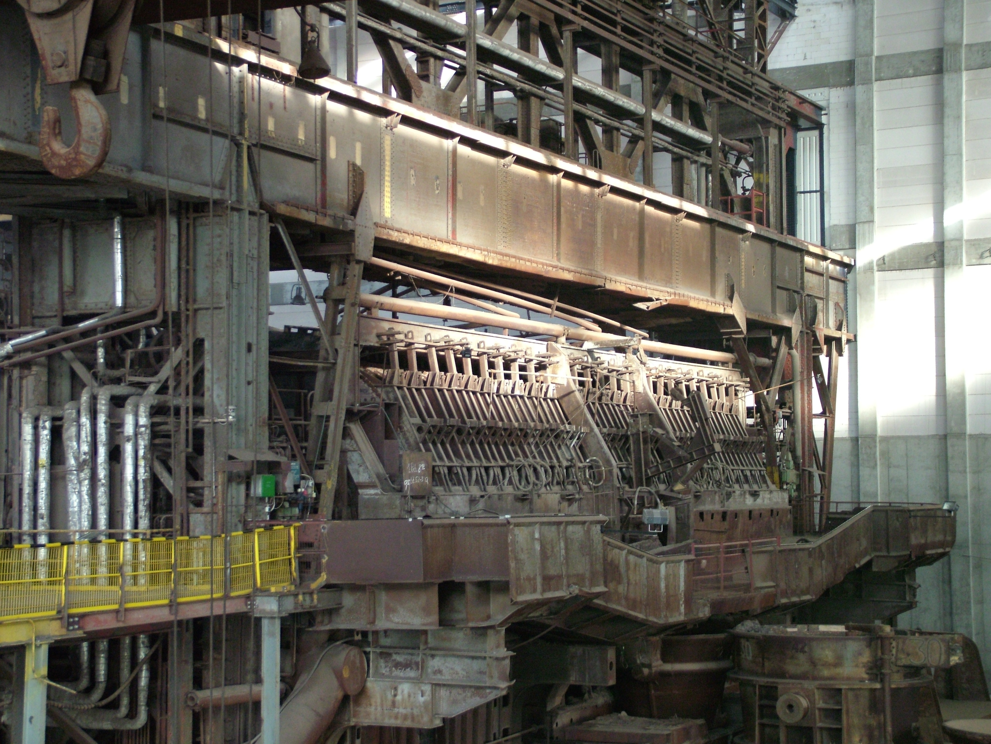 The Siemens-Martin-Oven in Brandenburg, Germany. The oven is nowadays a part of Brandenburg's Museum of Industry.